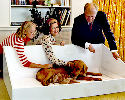 Puppies at the White House : Susan, Mrs. Ford, and US President Gerald Ford with Liberty and puppies. Location: The Solarium in the White House.